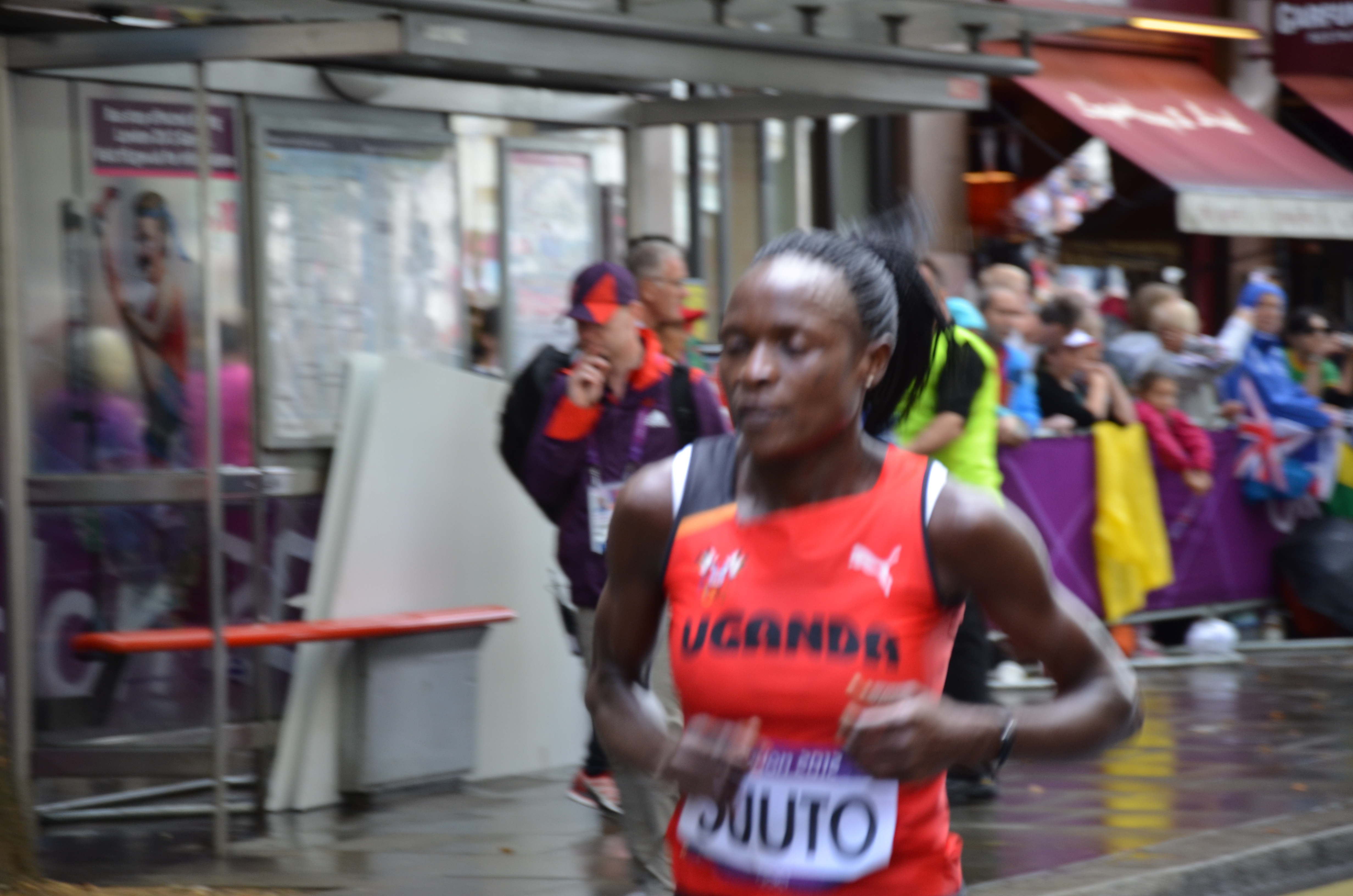 Jane Suuto (Uganda) in the marathon (w) at the Olympic Games 2012